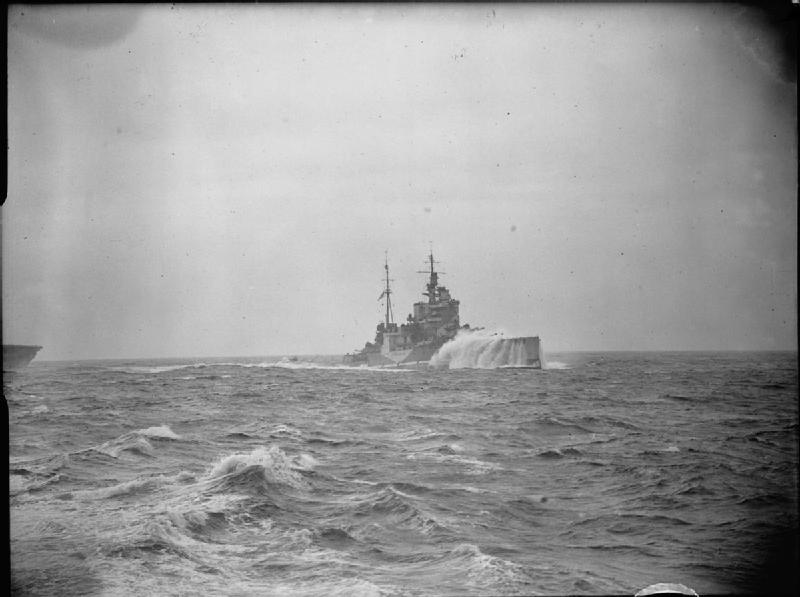 The Royal Navy during the Second World War HMS QUEEN ELIZABETH with bows awash in heavy seas off Scapa Flow during Home Fleet exercises.